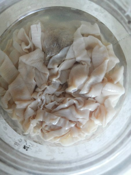 Taenia solium